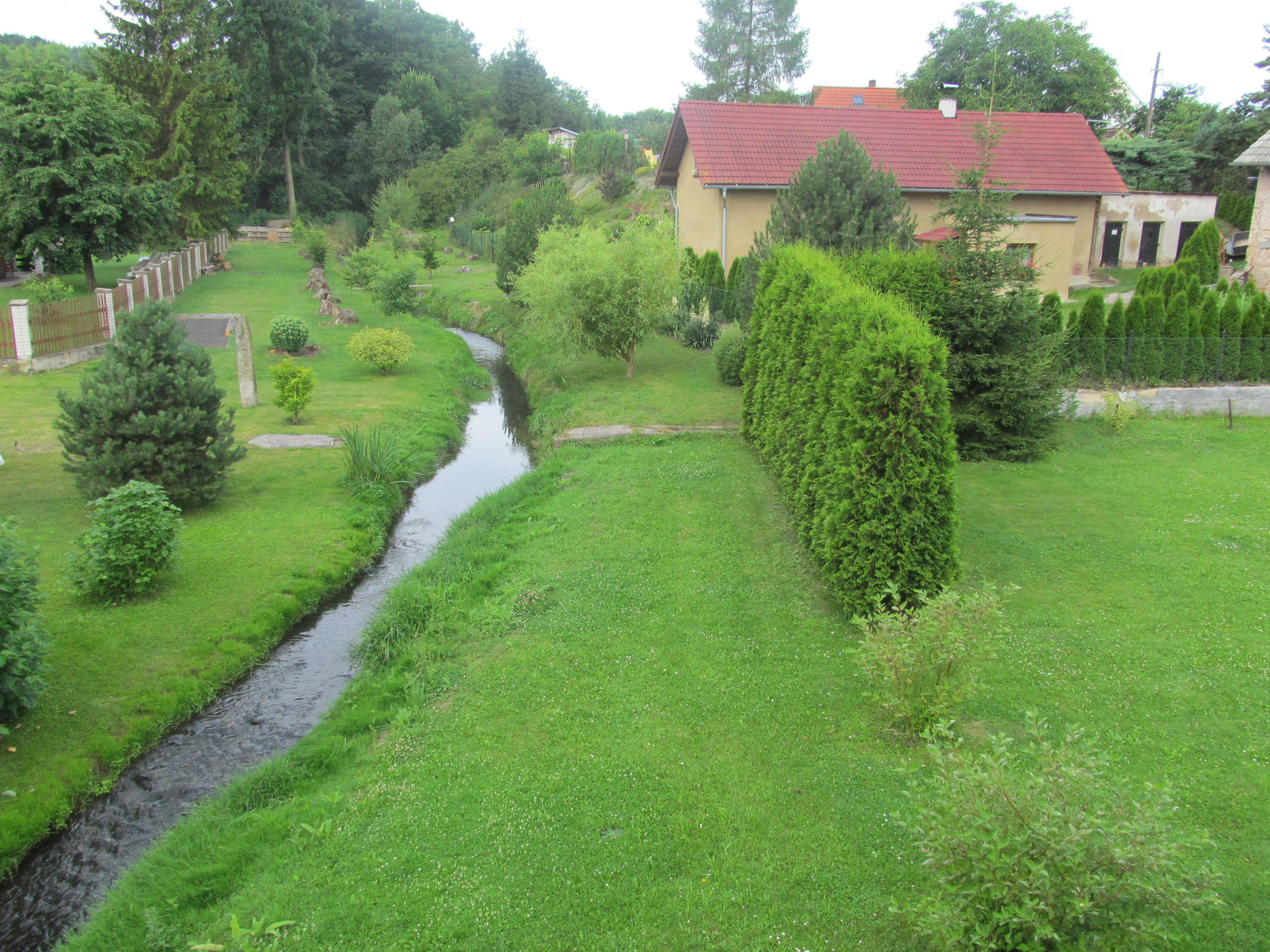 Dolánecký stream in Dolánky